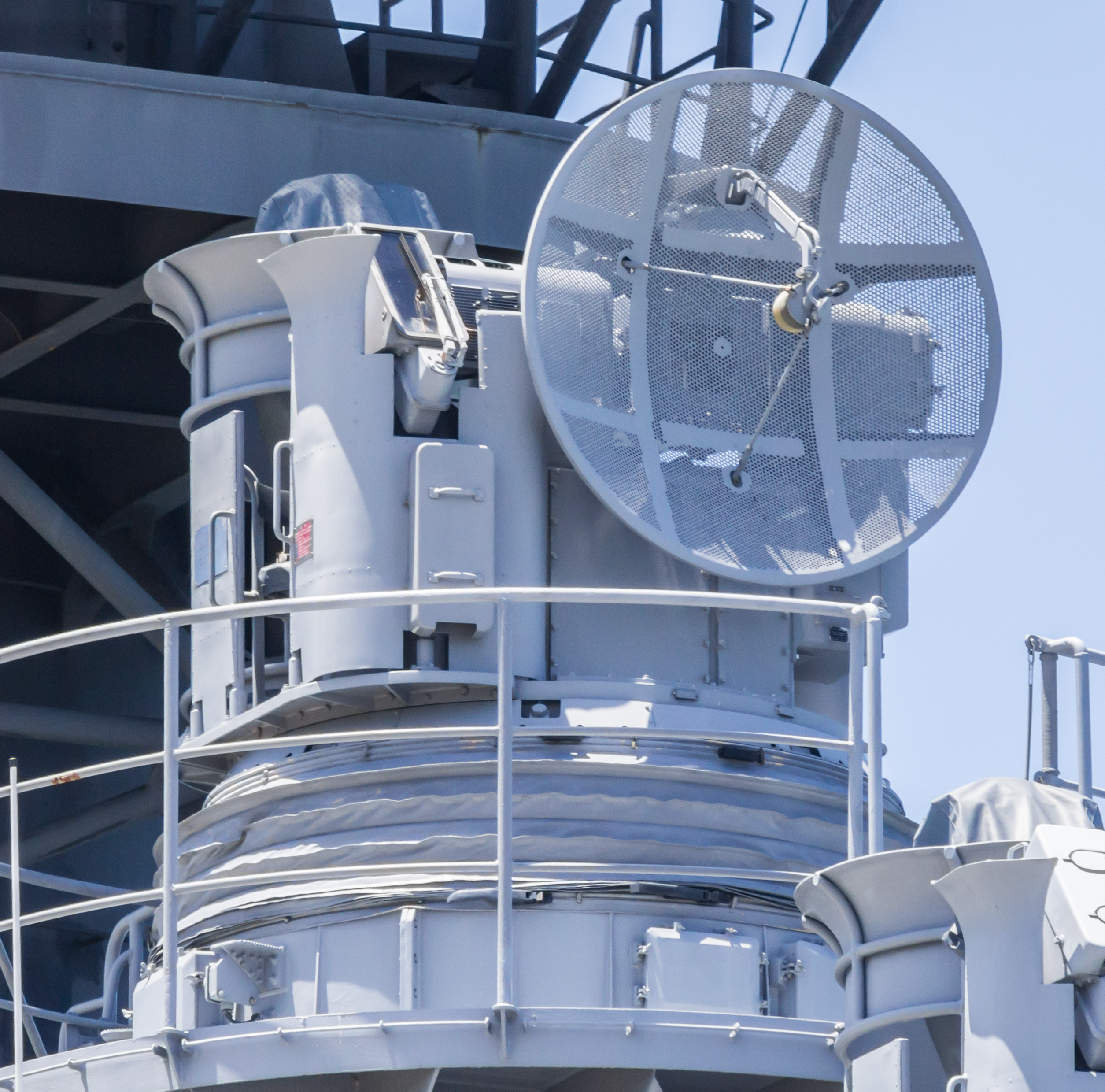 FCS-1A on JS DDH-143 Shirane at JMSDF Maizuru Base (2015 July 26)